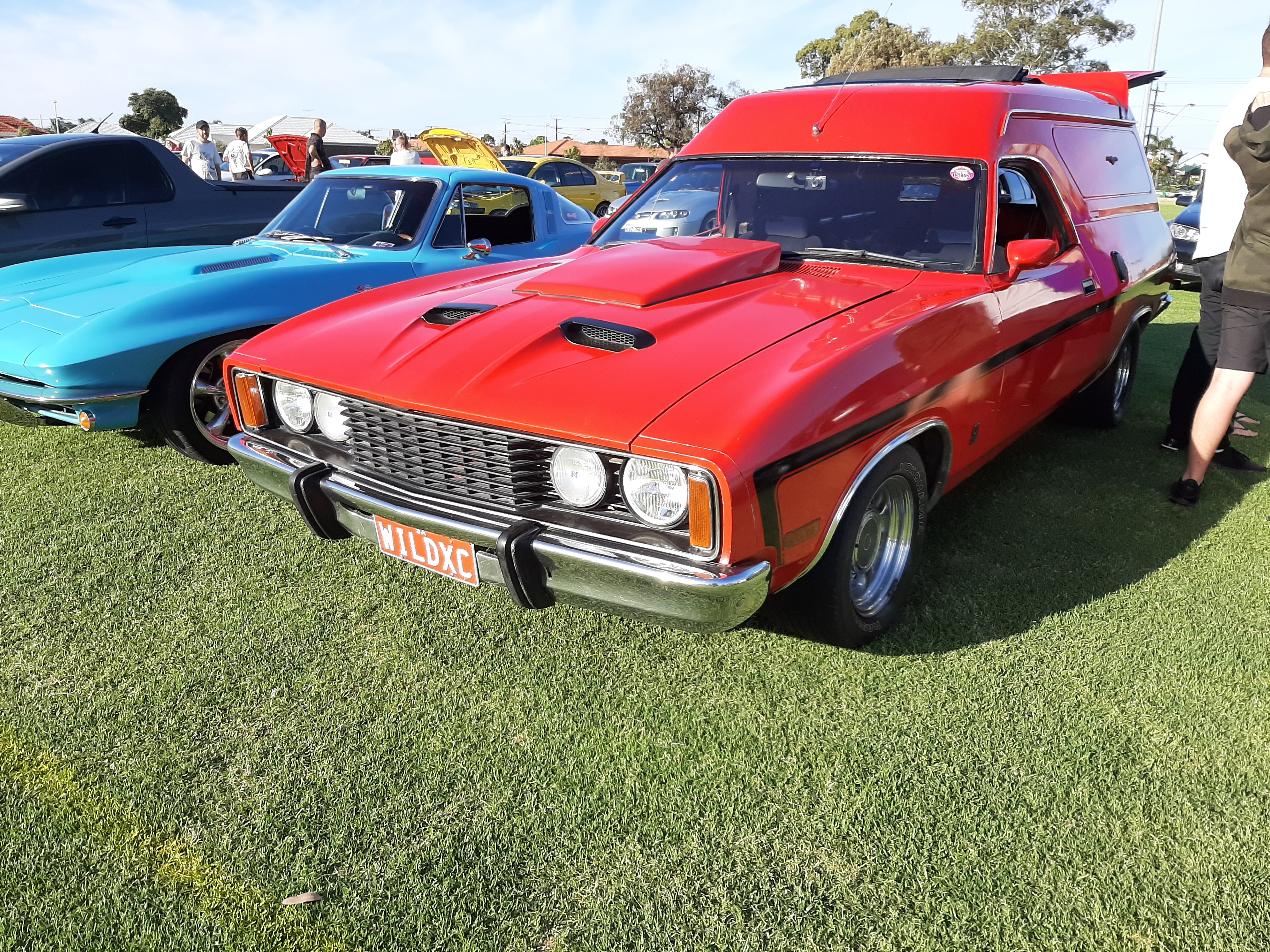 XC Panel Van Sundowner